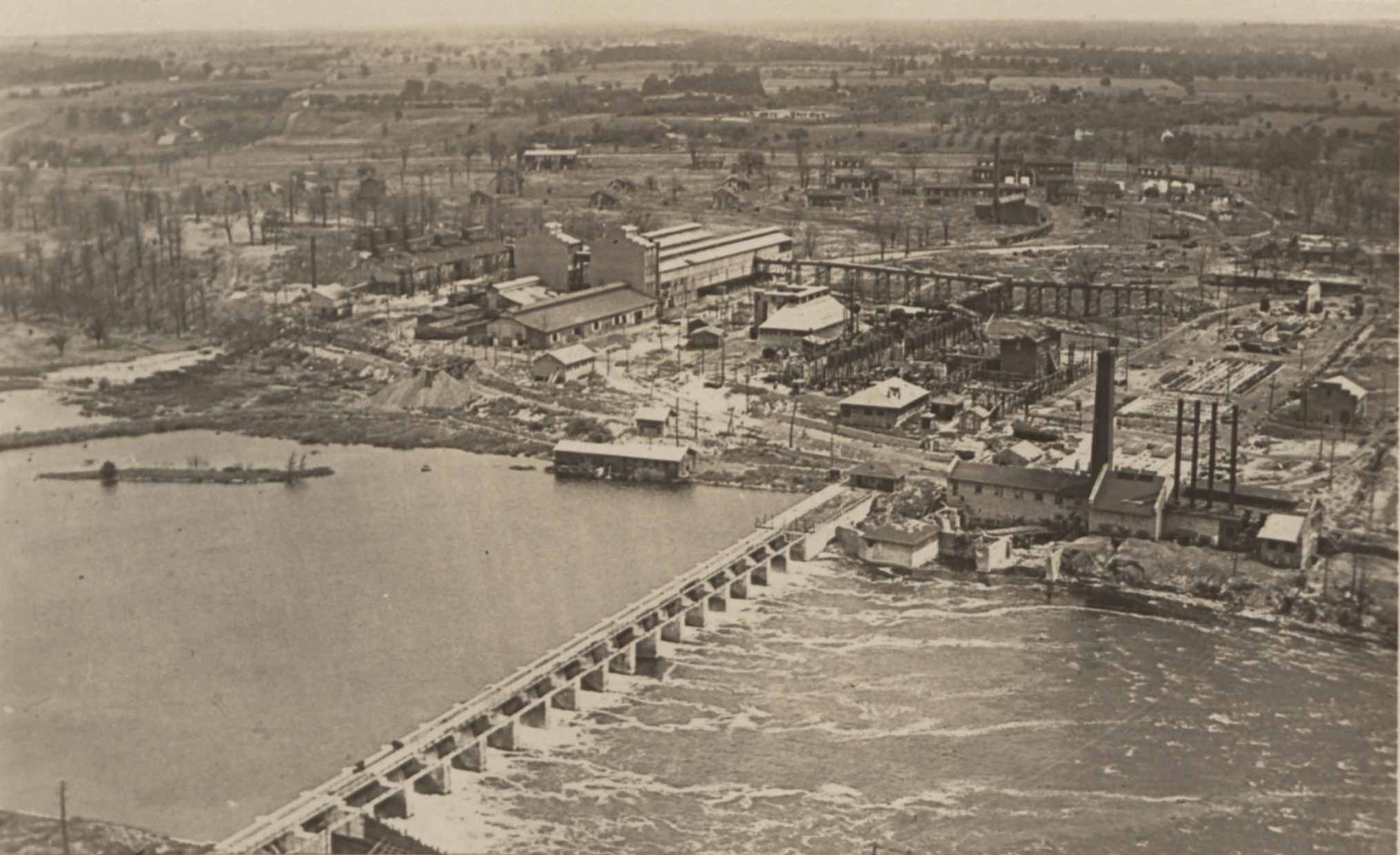 Original caption: “Trenton Ontario from the Air.”